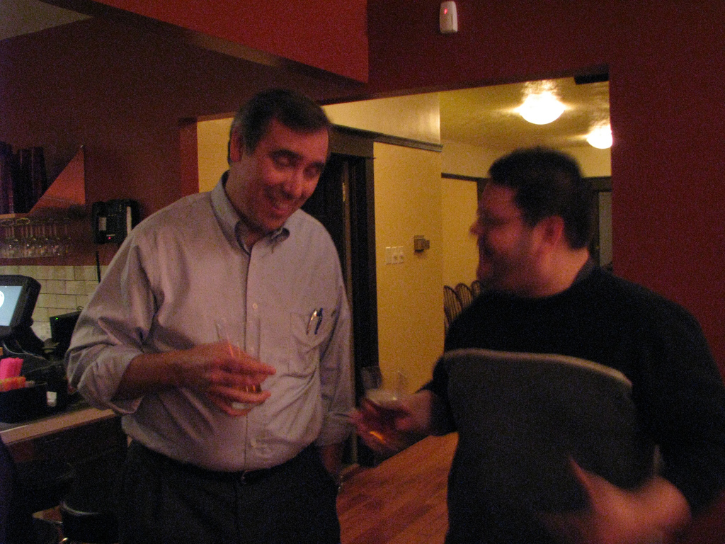 Jeff Merkley (left) and Kari Chisholm (right) in 2009.